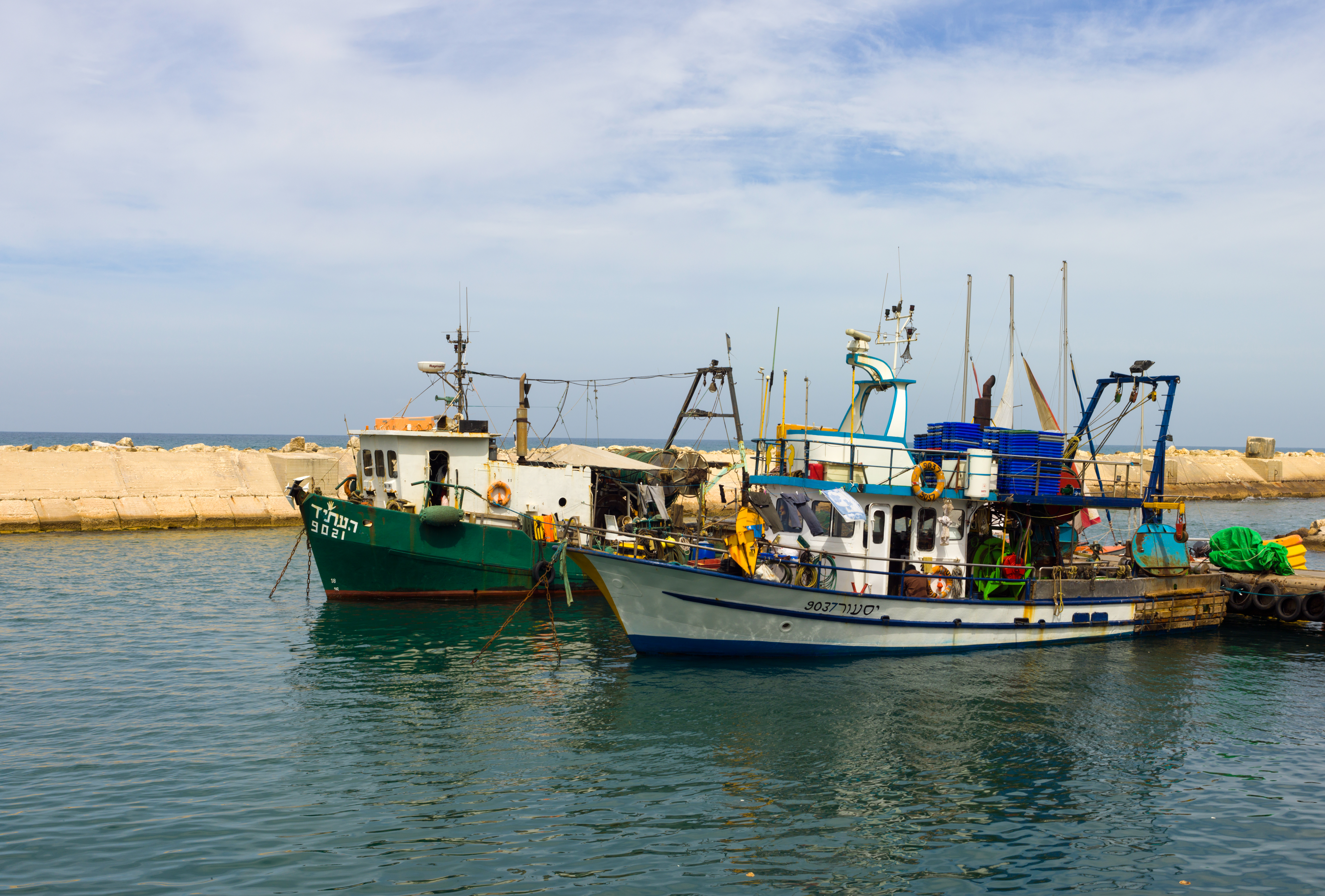 Fishing boats in the Port of Jaffa.